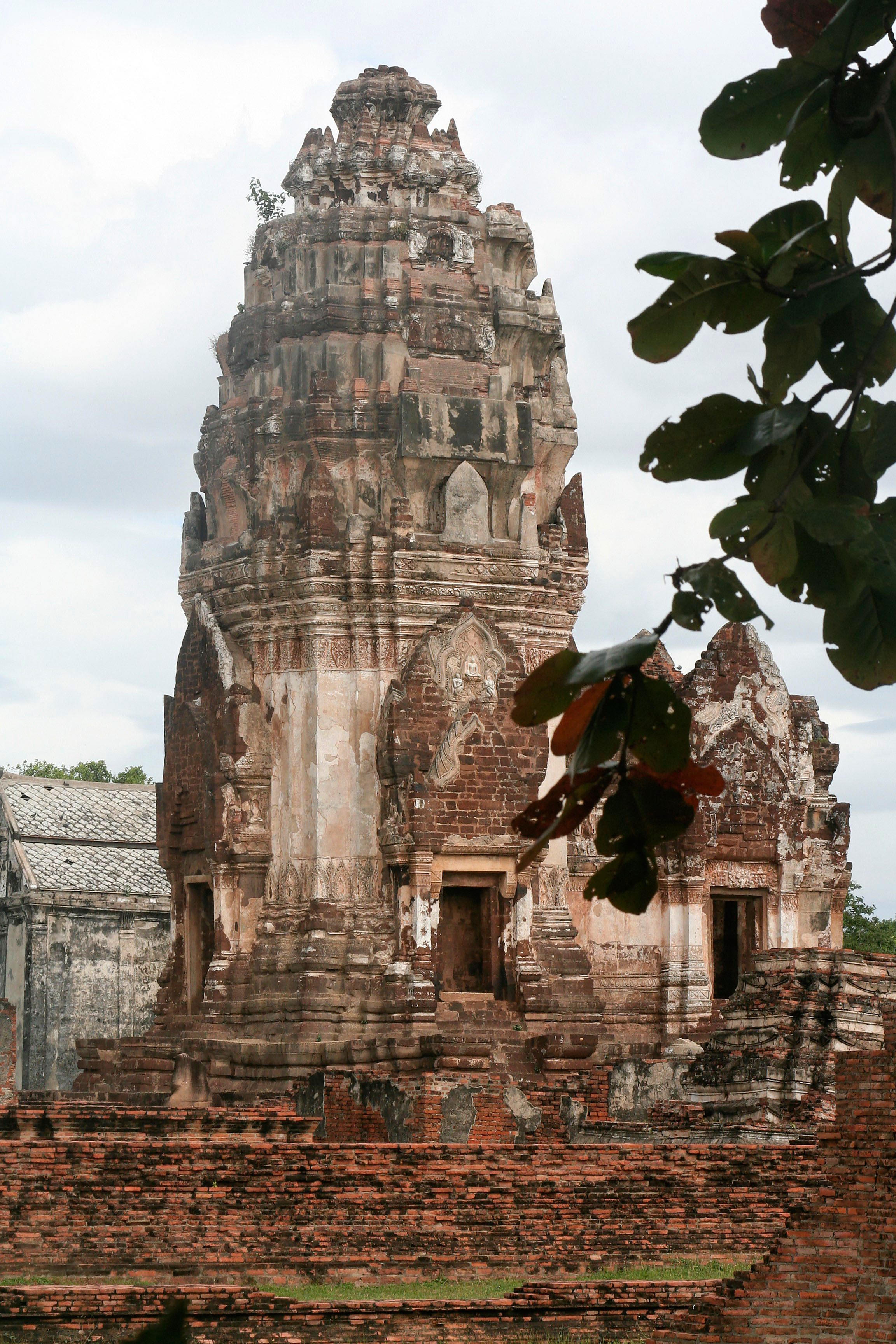 Wat Phra Sri Ratana Mahathat, Lopburi, Thailand